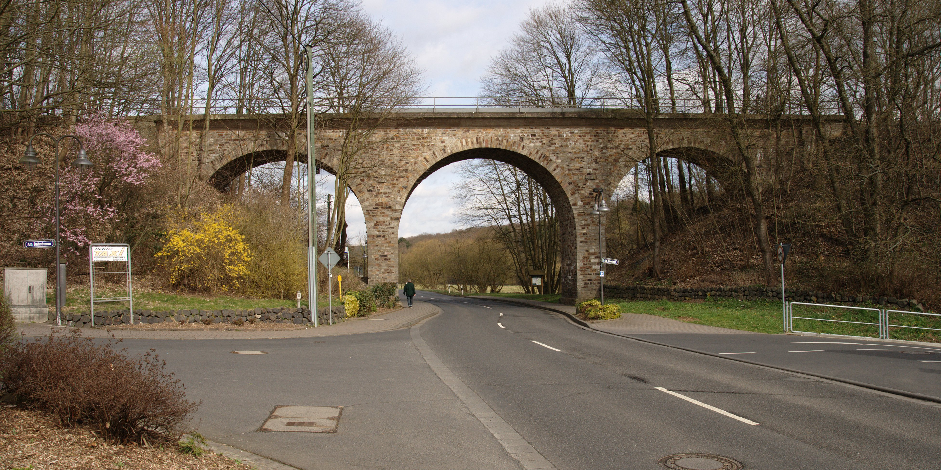 Railway bridge in Selters (Westerwald) crossing Bahnhofstraße